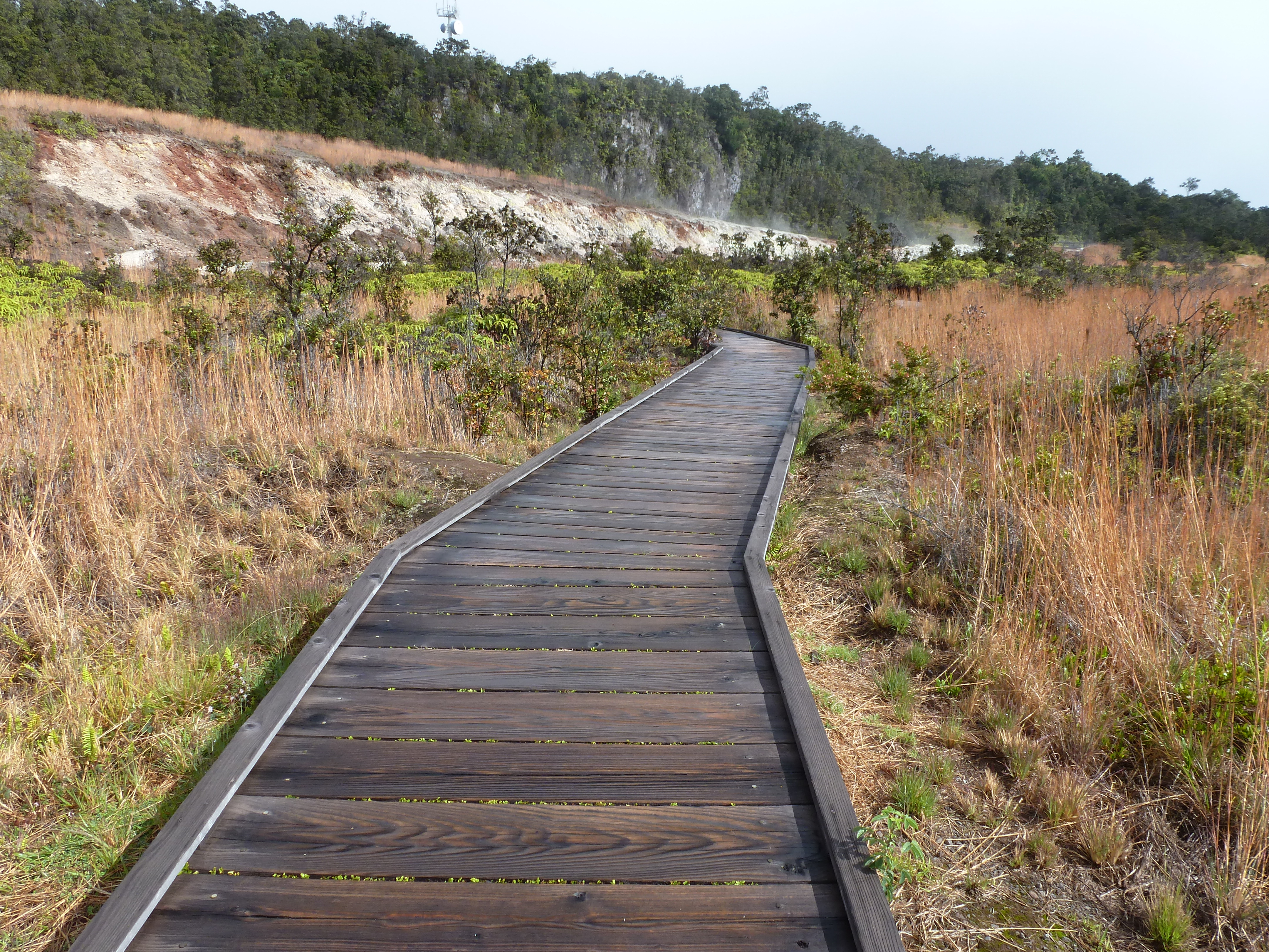 Path of Sulfur Banks, Kilauea, Hawaii, Unites States